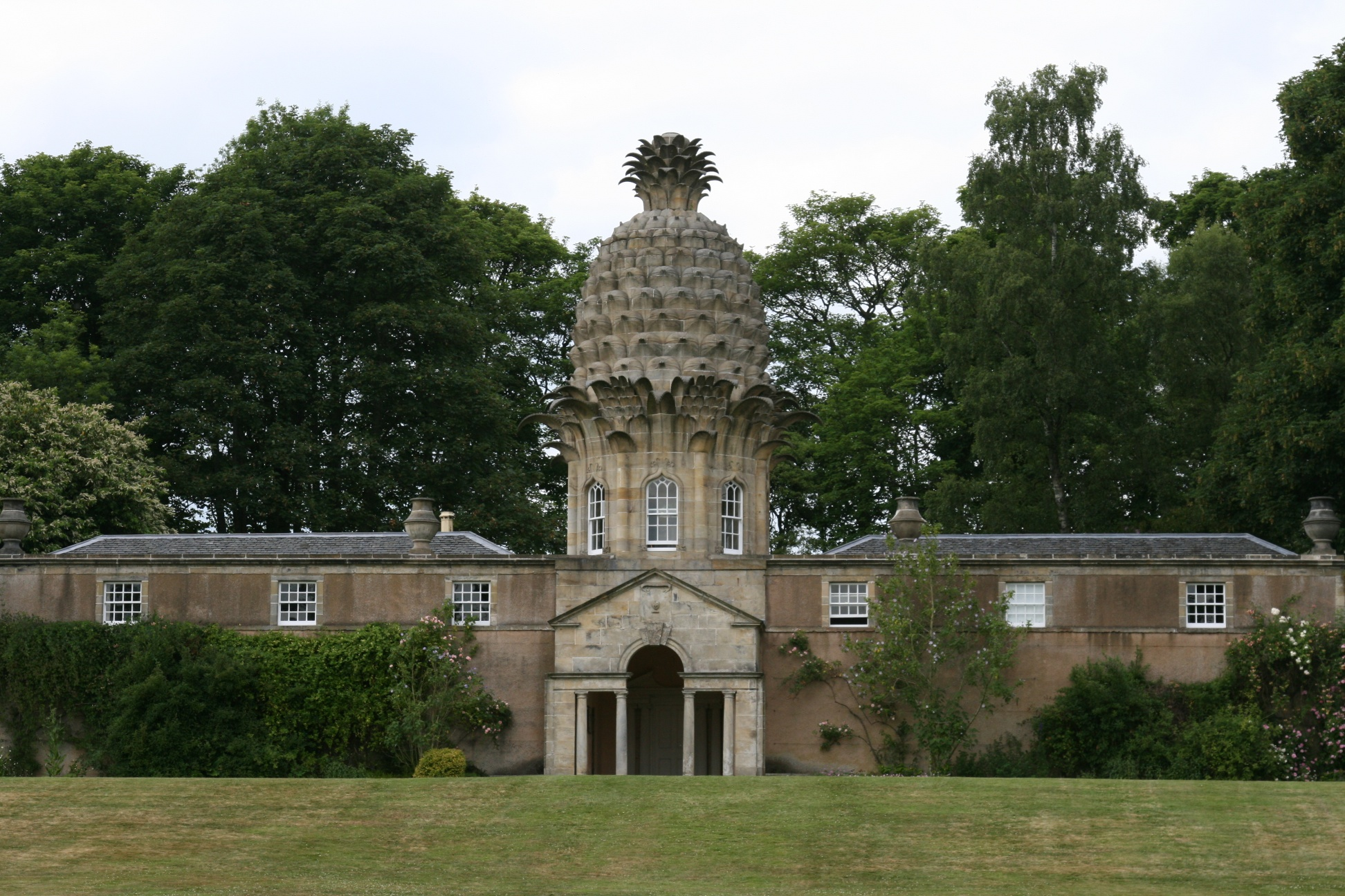 Front facade of Dunmore House, Scotland